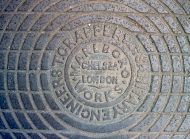 A genuine Crapper. Inscription in casting reads 'T Crapper & Co Sanitary Engineers Marlboro Works Chelsea London'.